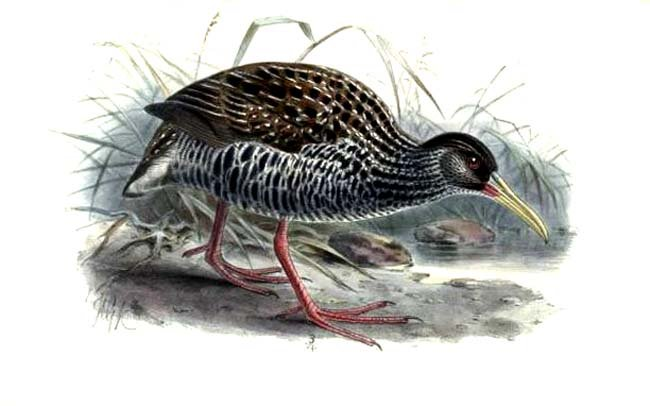 Pardirallus maculatus (Spotted Rail)